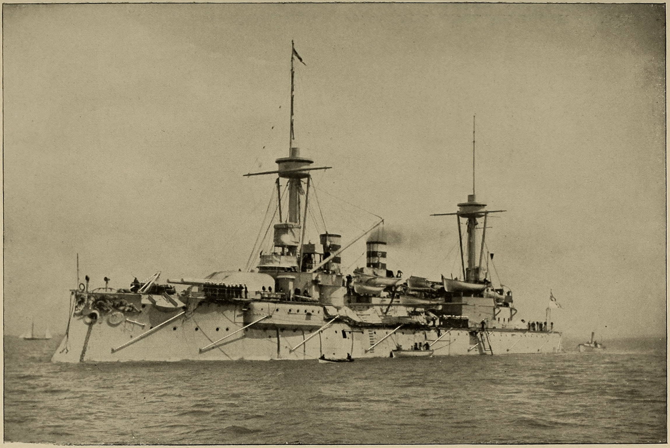 Cassier's Magazine of August 1897 had an article on page 425-440, written by Sir Charles W. Dilke and titled The Naval Weakness of Great Britain. It was accompanied by a number of illustrations, including this photo of the German battleship SMS Wörth, on page 433.